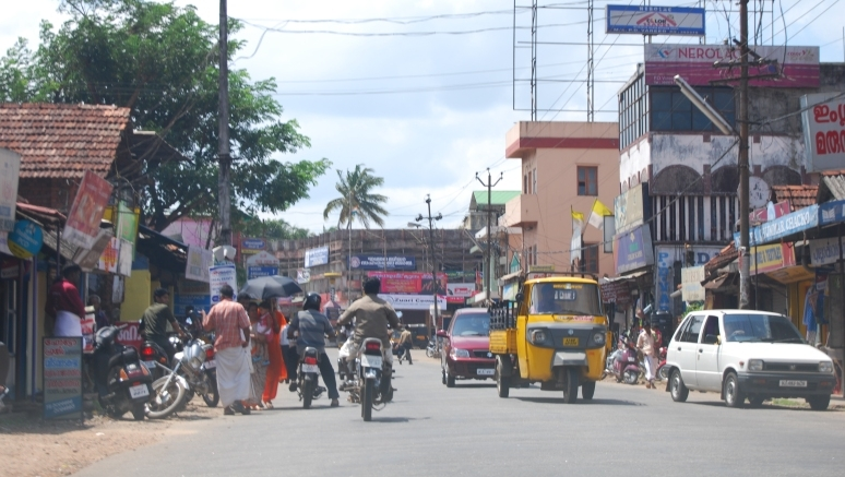 Ollur city